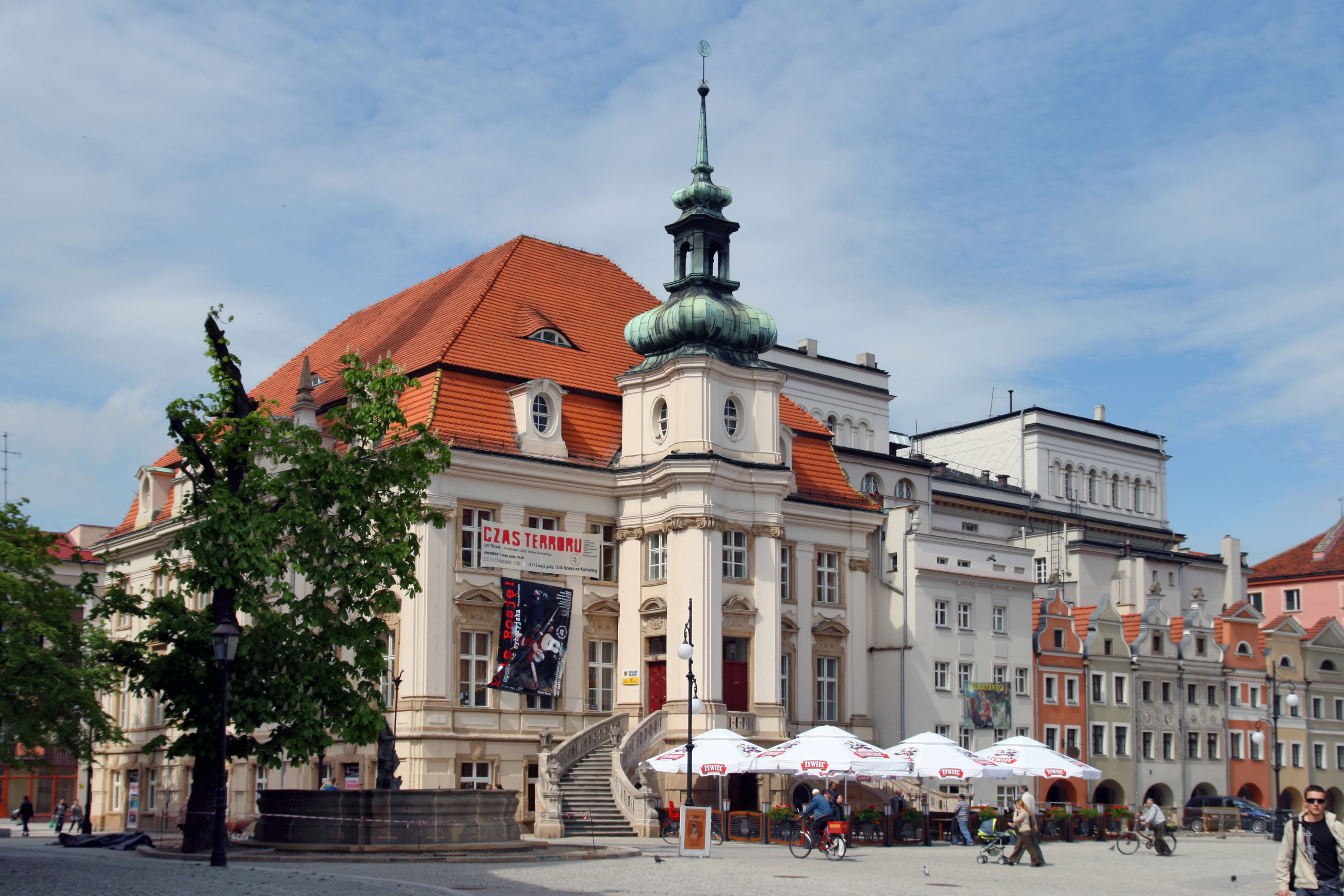 Former Town Hall in Legnica (Poland).